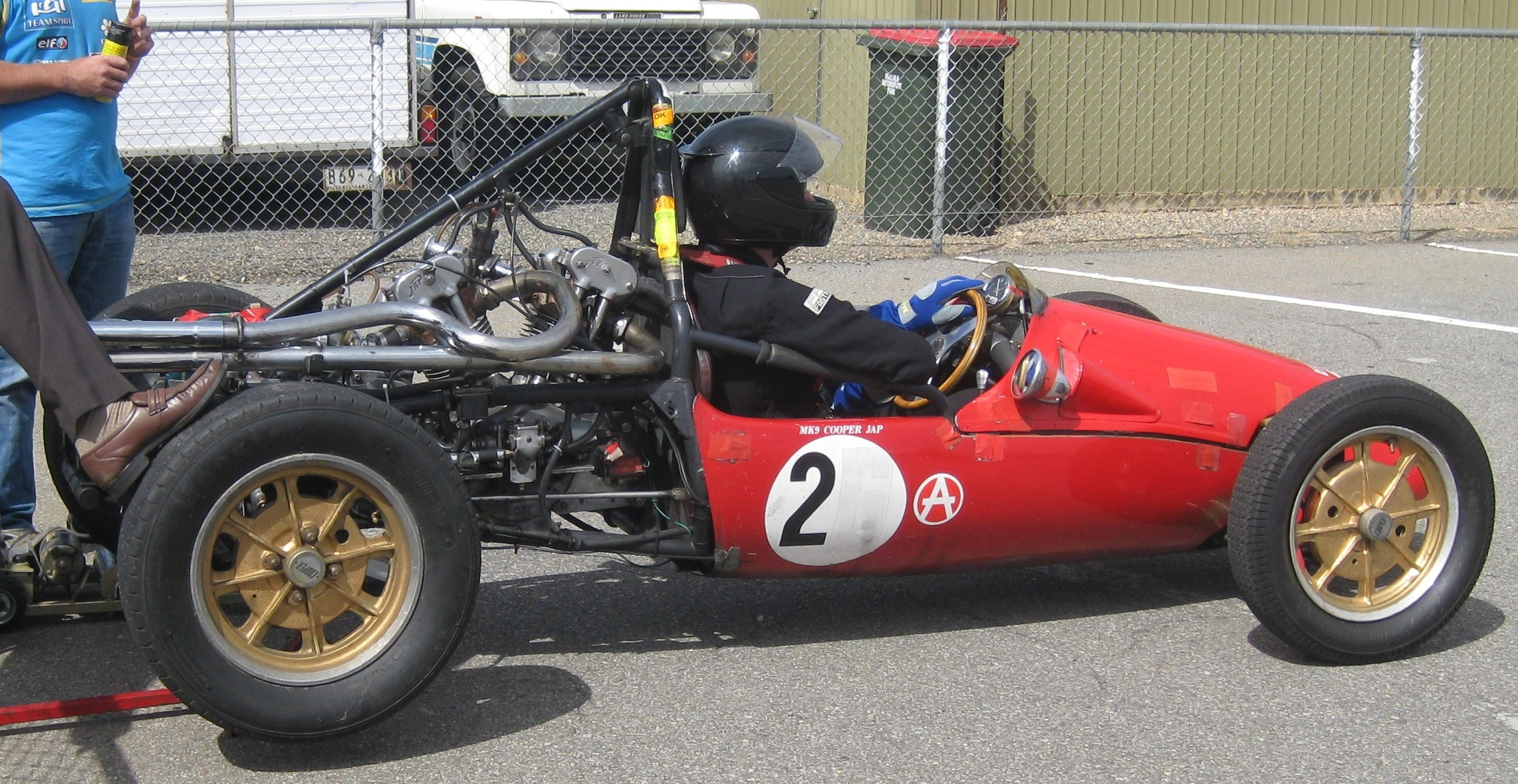 Cooper Mk9 JAP 1100cc racing car of 1956, as driven by Brian Simpson at the Historics race meeting at Mallala Motor Sport Park in South Australia on 3 April 2010.